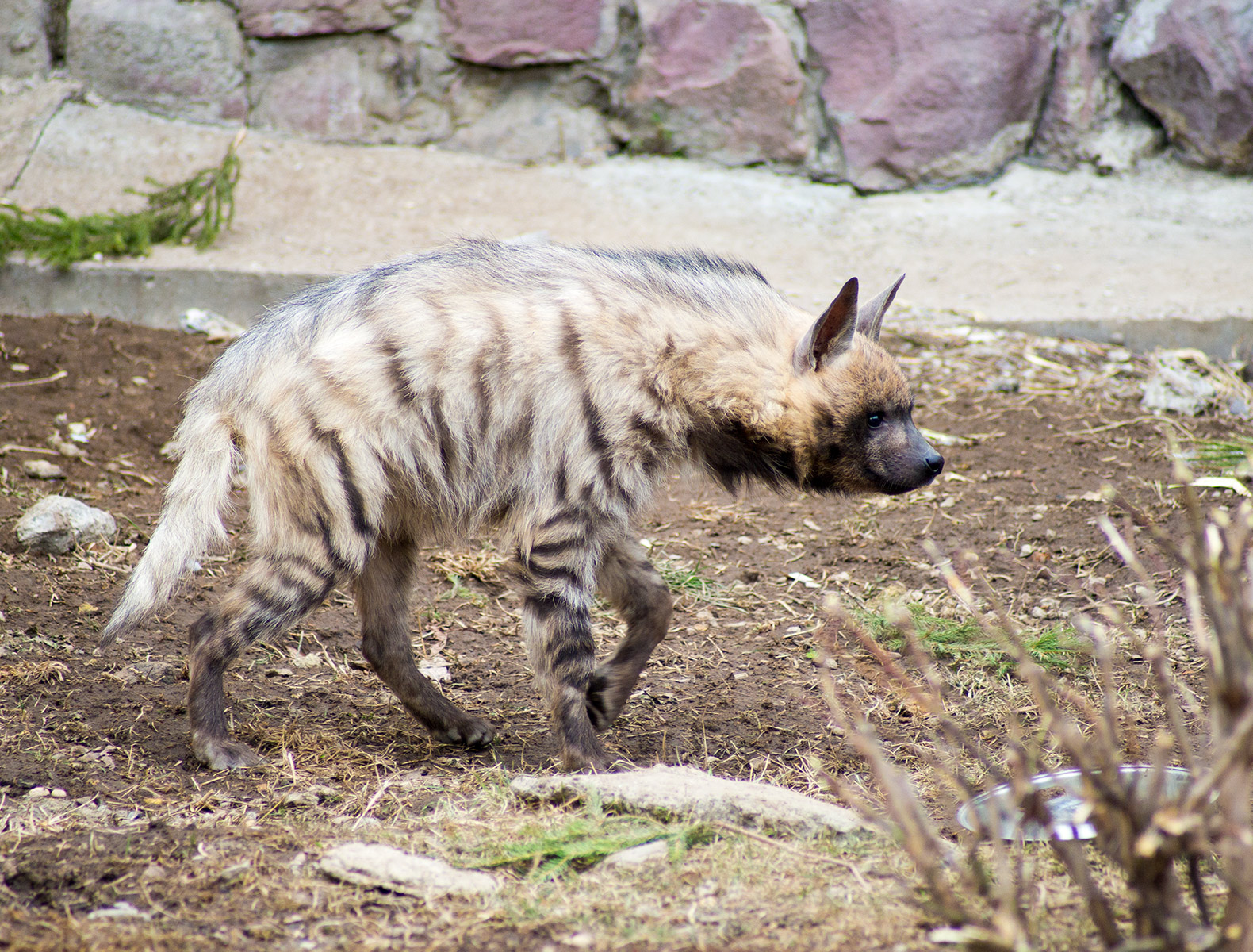 Полосатая гиена в Московском зоопарке